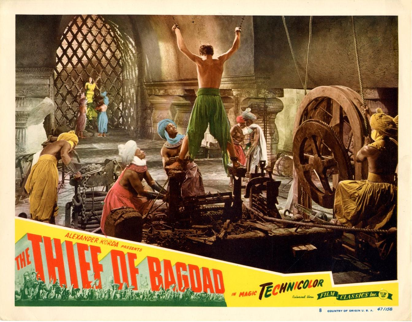 Colored lobby card for Alexander Korda's The Thief of Bagdad (United Artists, 1940). Image is presumed to be in the public domain as no copyright notice is in evidence.